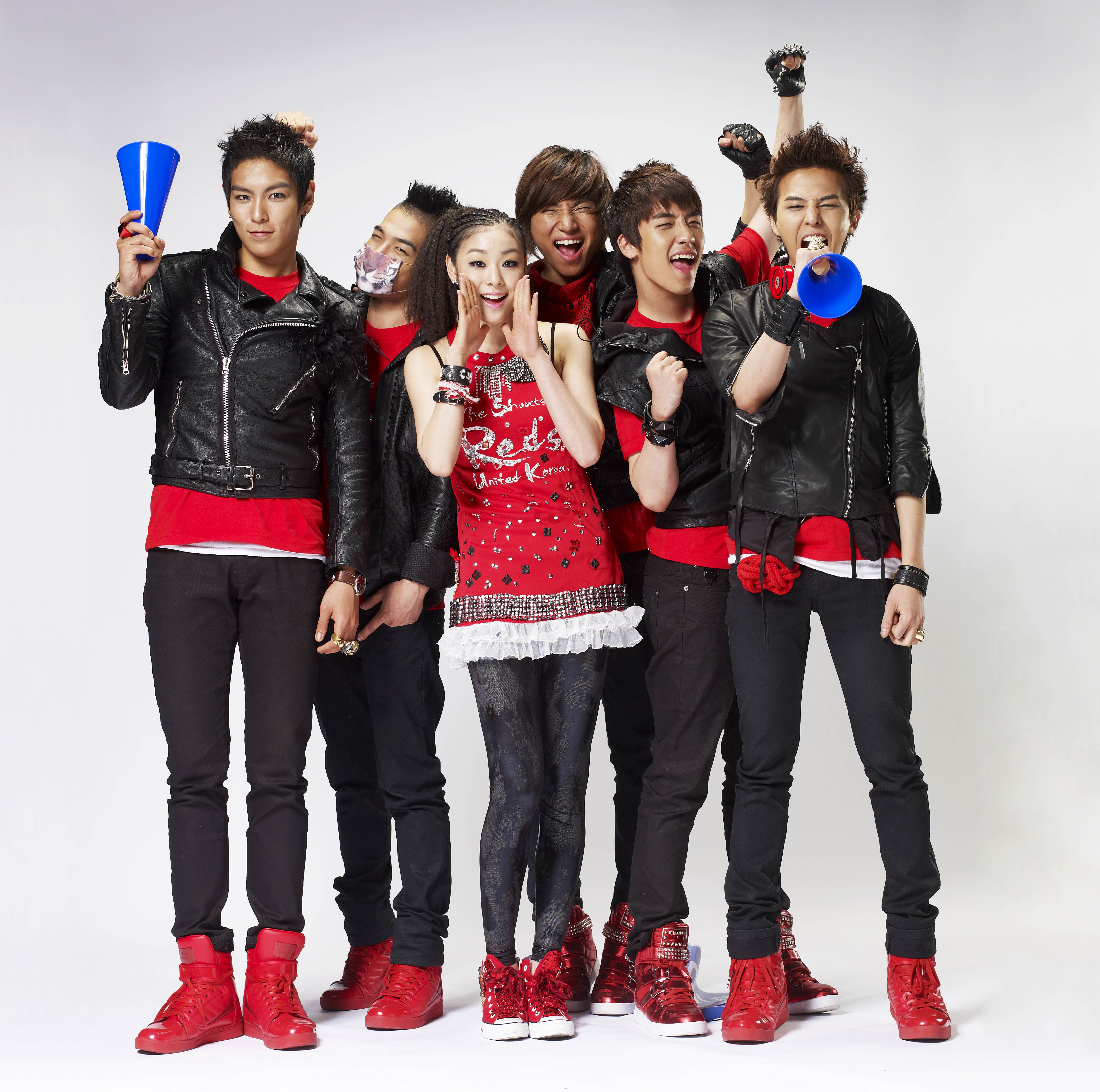 BIGBANG & Kim Yuna 2010 World Cup Theme Song "The Shouts of Reds".